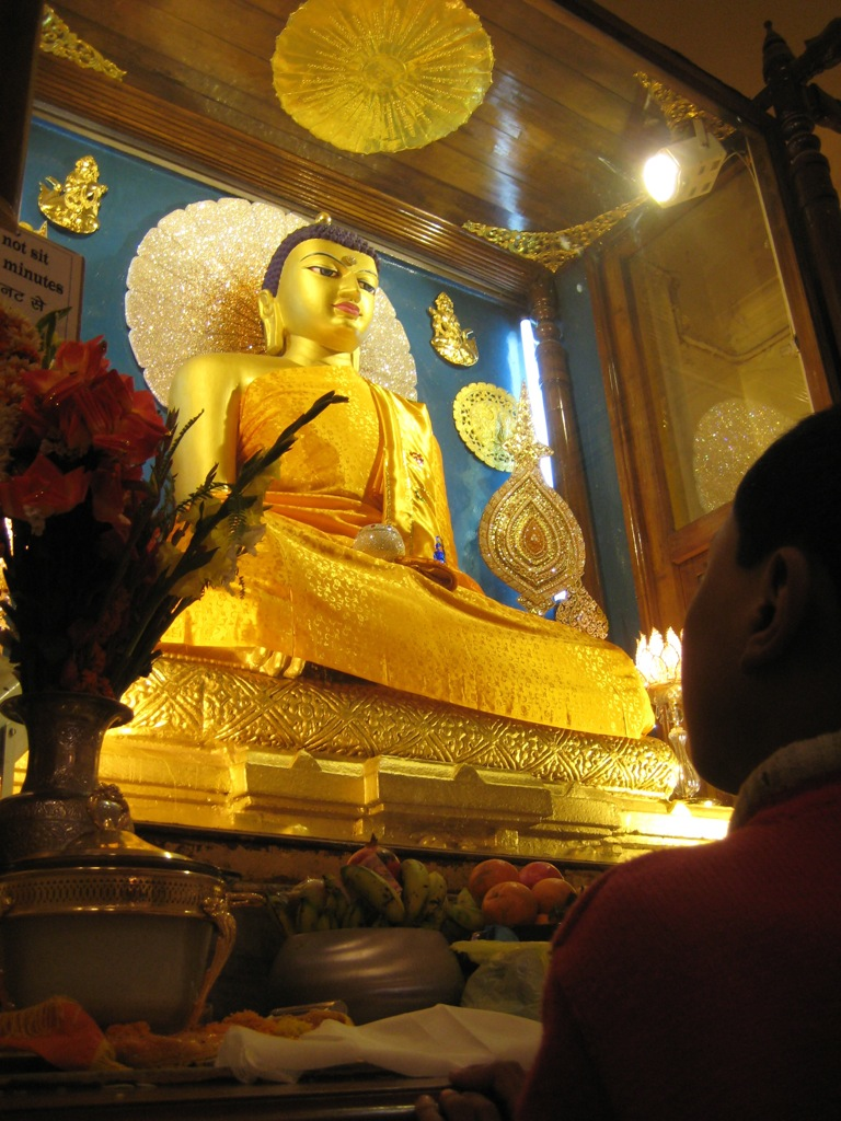 A Buddhist devotee offering prayers to the Buddha at the Maha Bodhi Temple, the site of the Buddha's enligtenment and the holiest of the four Buddhist pilgrimage sites on the Indian subcontinent